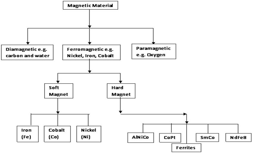 mag material